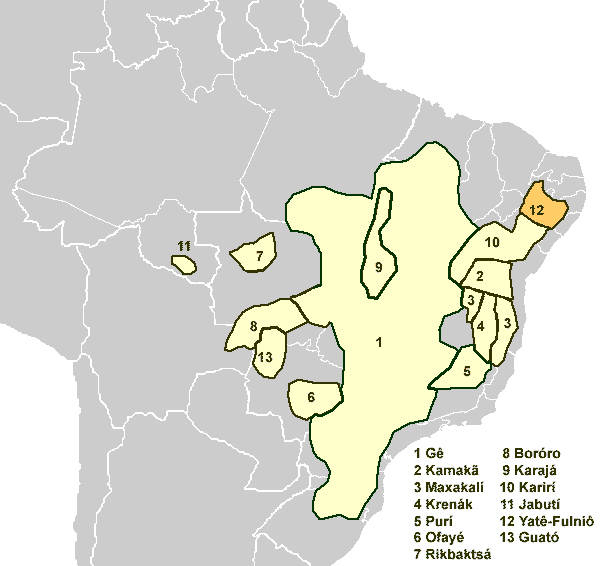 Yatê-Fulniô language (orange), (probable spread area at the time of contact) Source: Ribeiro, Eduardo & Van der Voort, Hein (2010) “Nimuendajú was right: The inclusion of the Jabuti language family in the Macro-Jê stock”, International Journal of American Linguistics, 76/4.